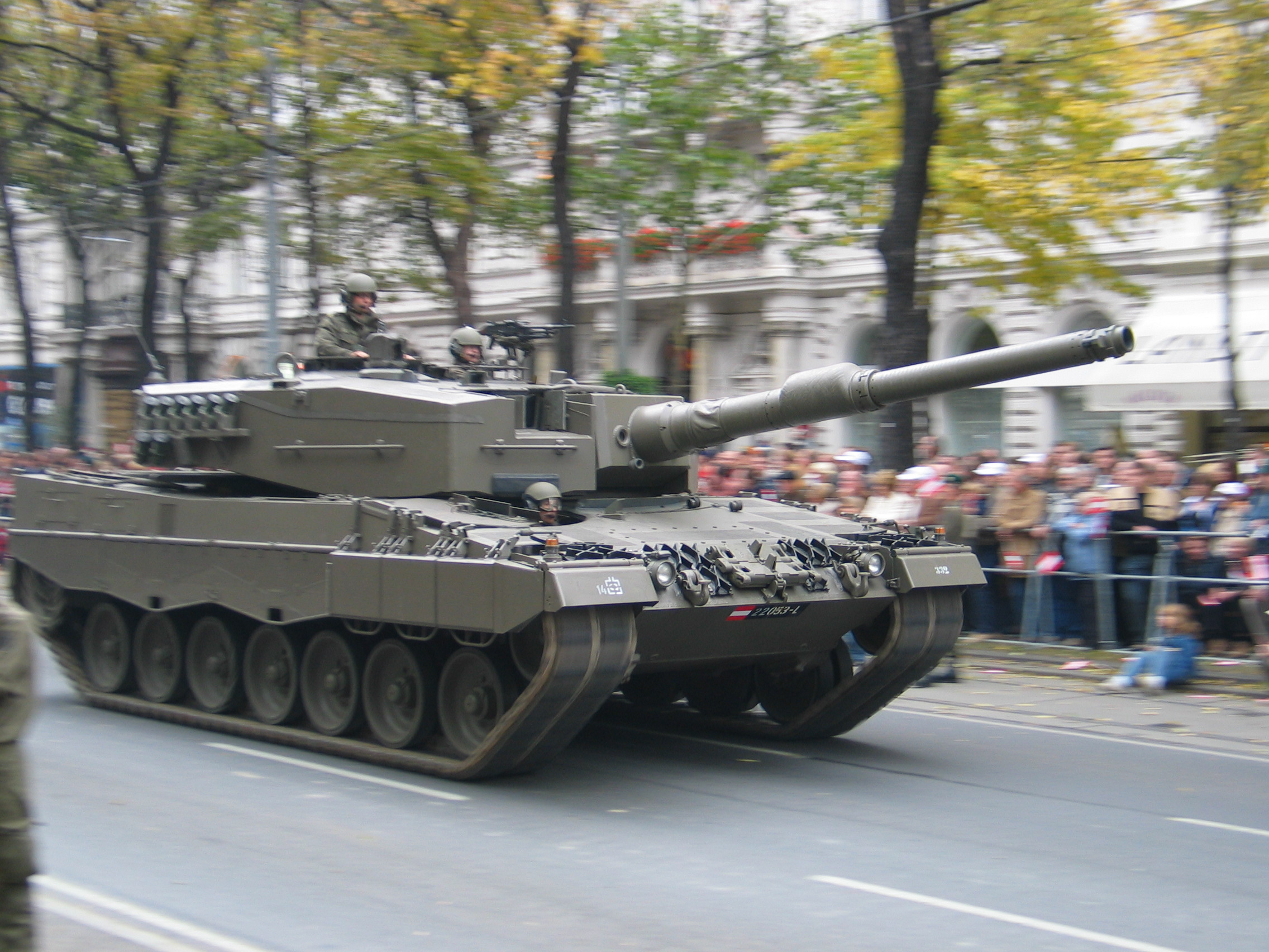 A Leopard 2 A4 of the Austrian Armed Forces (Bundesheer) on Austria's National Day in 2005